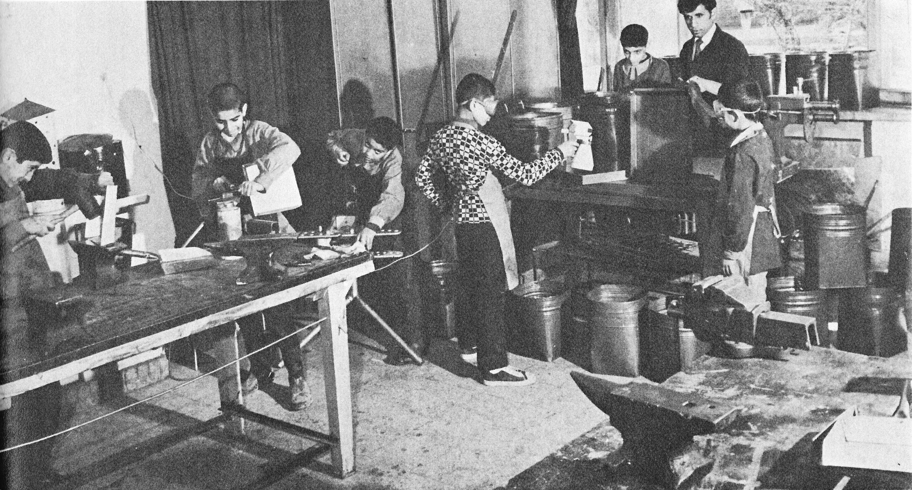 Association for the support of kids and yound adults, Iran